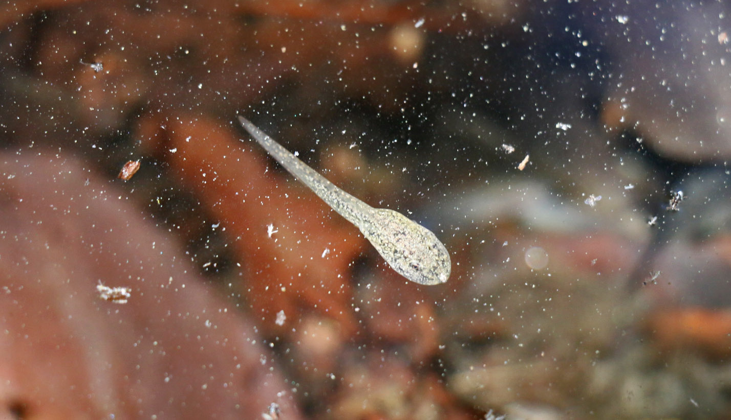 Photo by Joanna Gilkeson/USFWS.